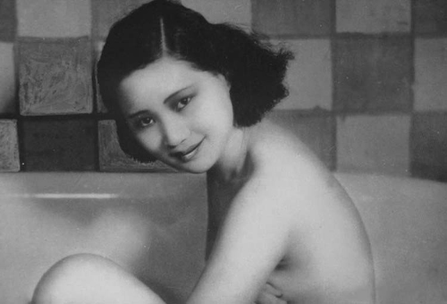 Xu Lai in 1933 film Remnants of Spring (残春), considered the first female bathing scene in Chinese cinema